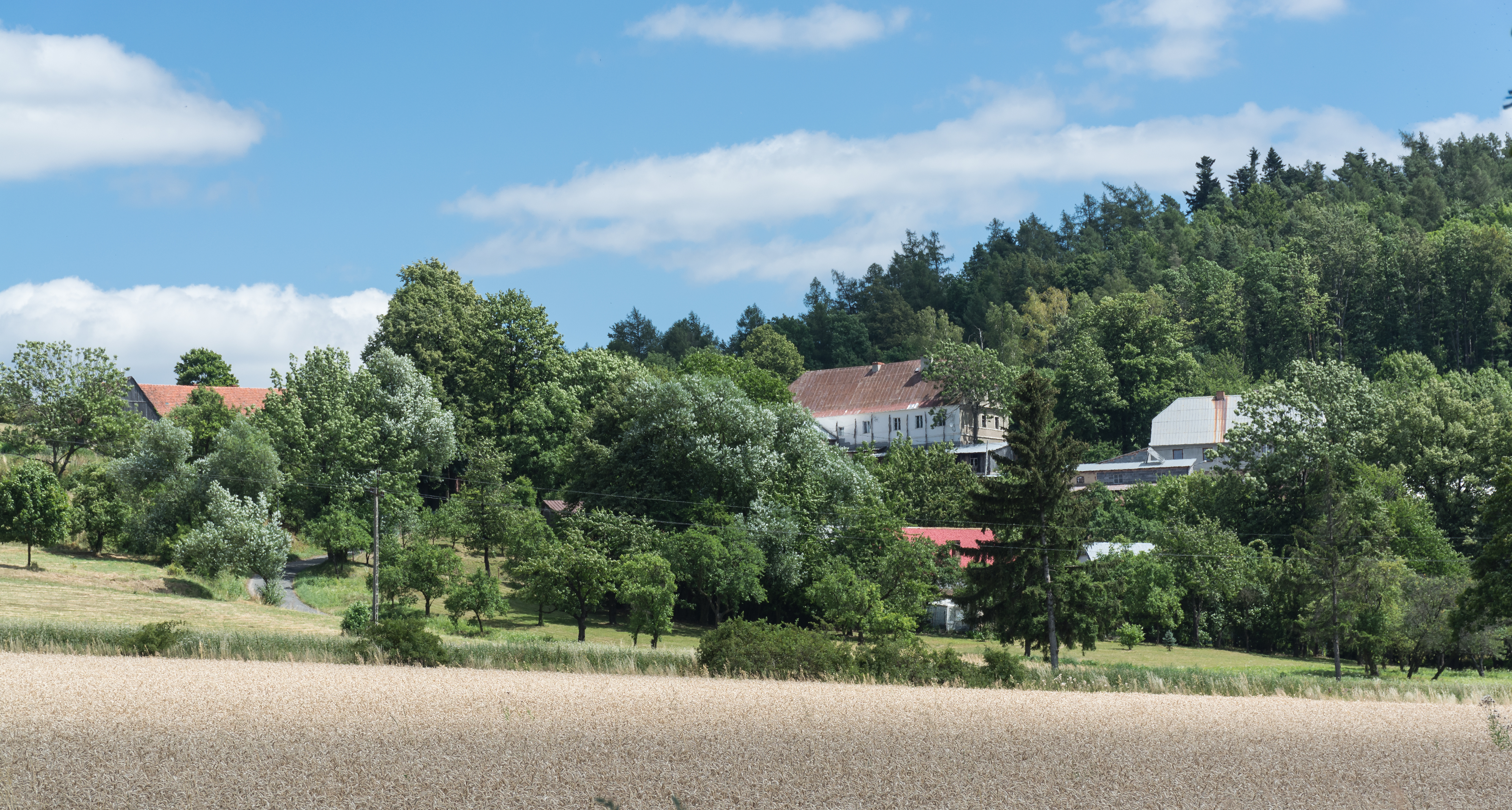 Mielnik, exposure from Gorzanów